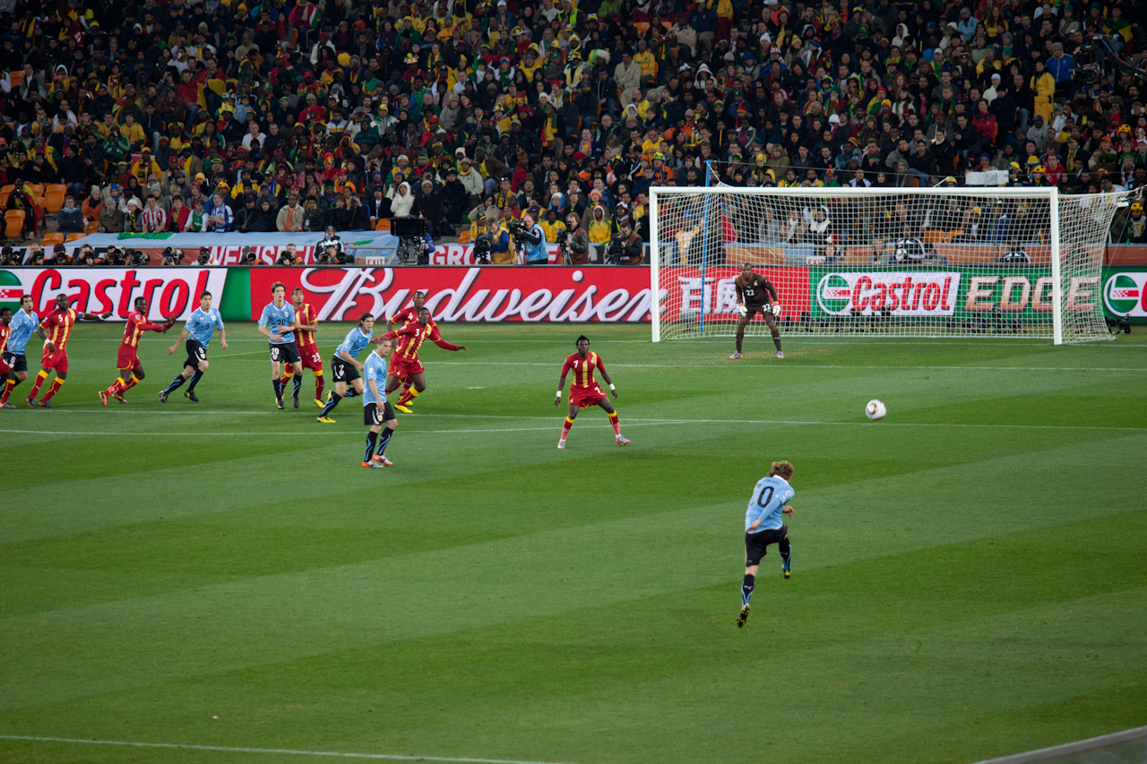 [Teams during the FIFA World Cup 2010 quaterfinal between Uruguay and Ghana, 2 July 2010, Soccer City, Johannesburg